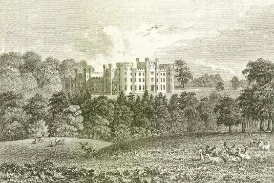 Bretby Hall in Derbyshire, home of the Earls of Chesterfield